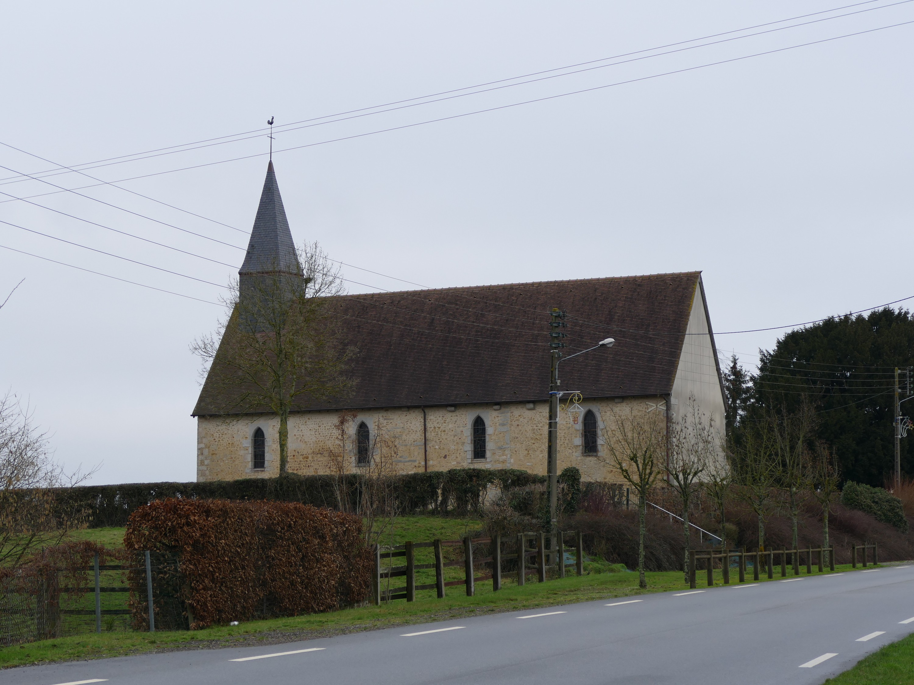 Saint-Peter's church in Larré (Orne, Normandie, France).